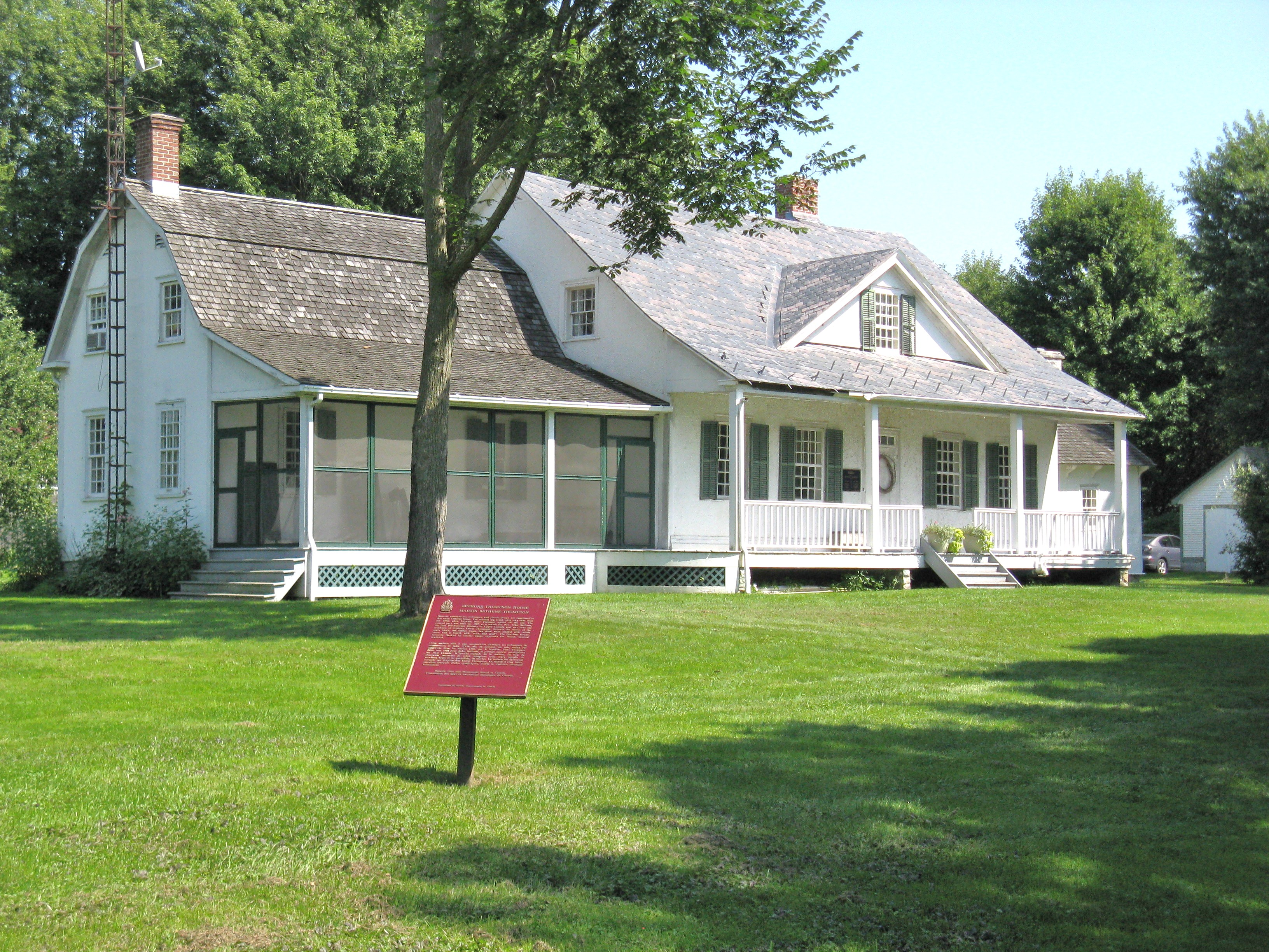 Bethune-Thompson House / White House National Historic Site, Williamstown, Ontario